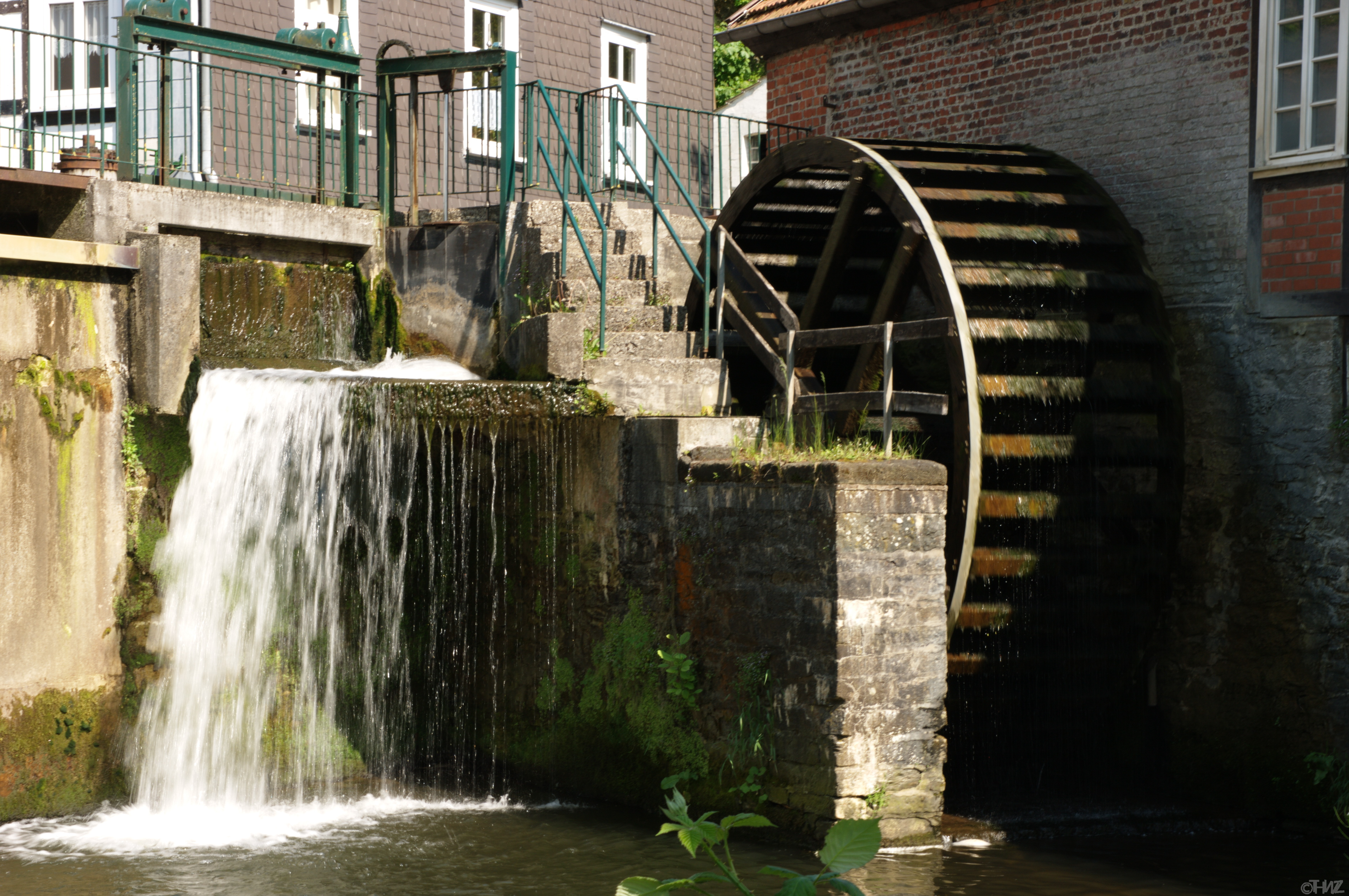 The water wheel of Stuetings Muehle, a historic sawmill in Belecke in the Sauerland.